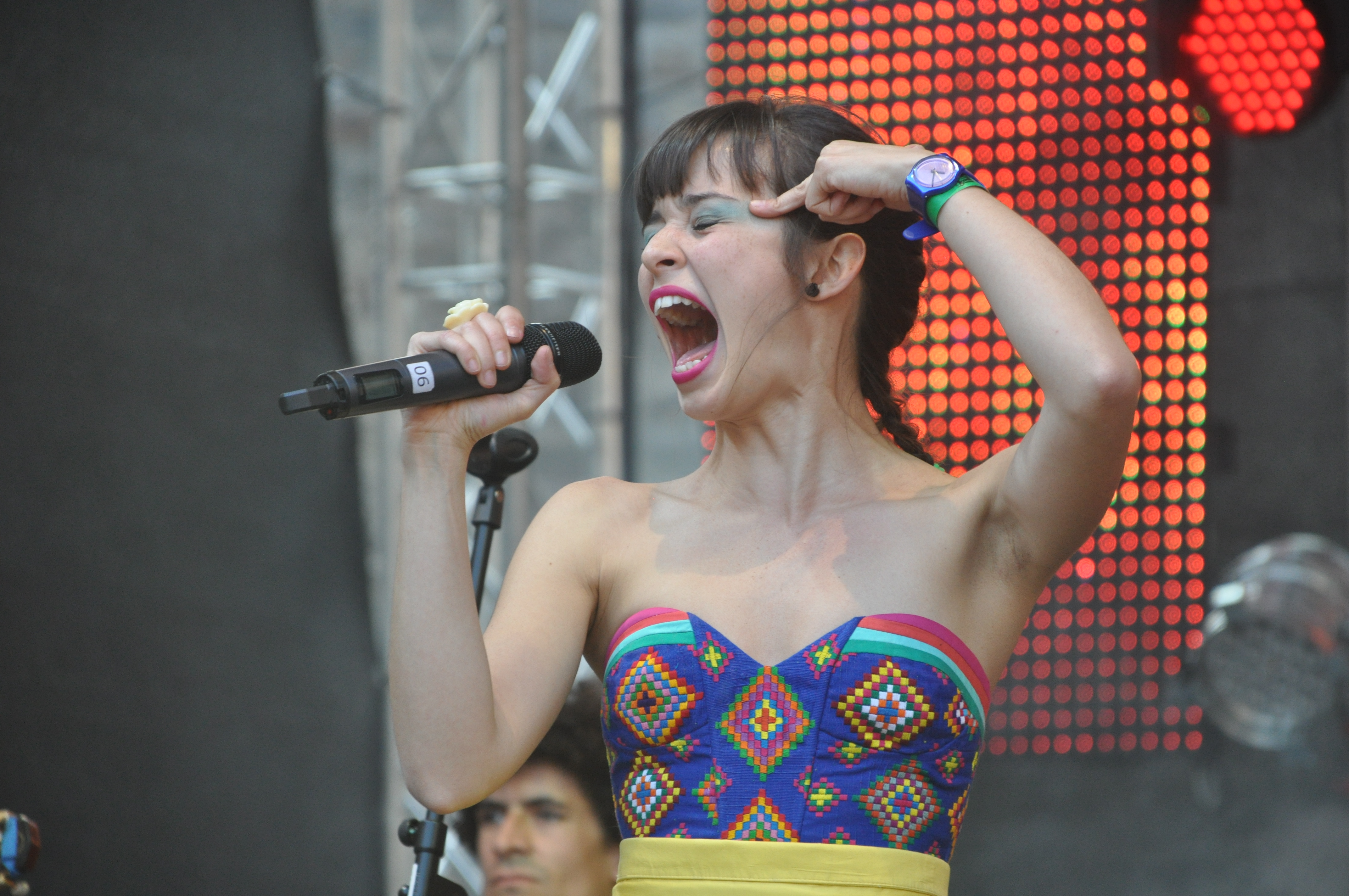 Monsieur Periné (Columbia), appearence at the 11th world music festival "Horizonte" 2013 at the fortress Ehrenbreitstein, Koblenz, Germany